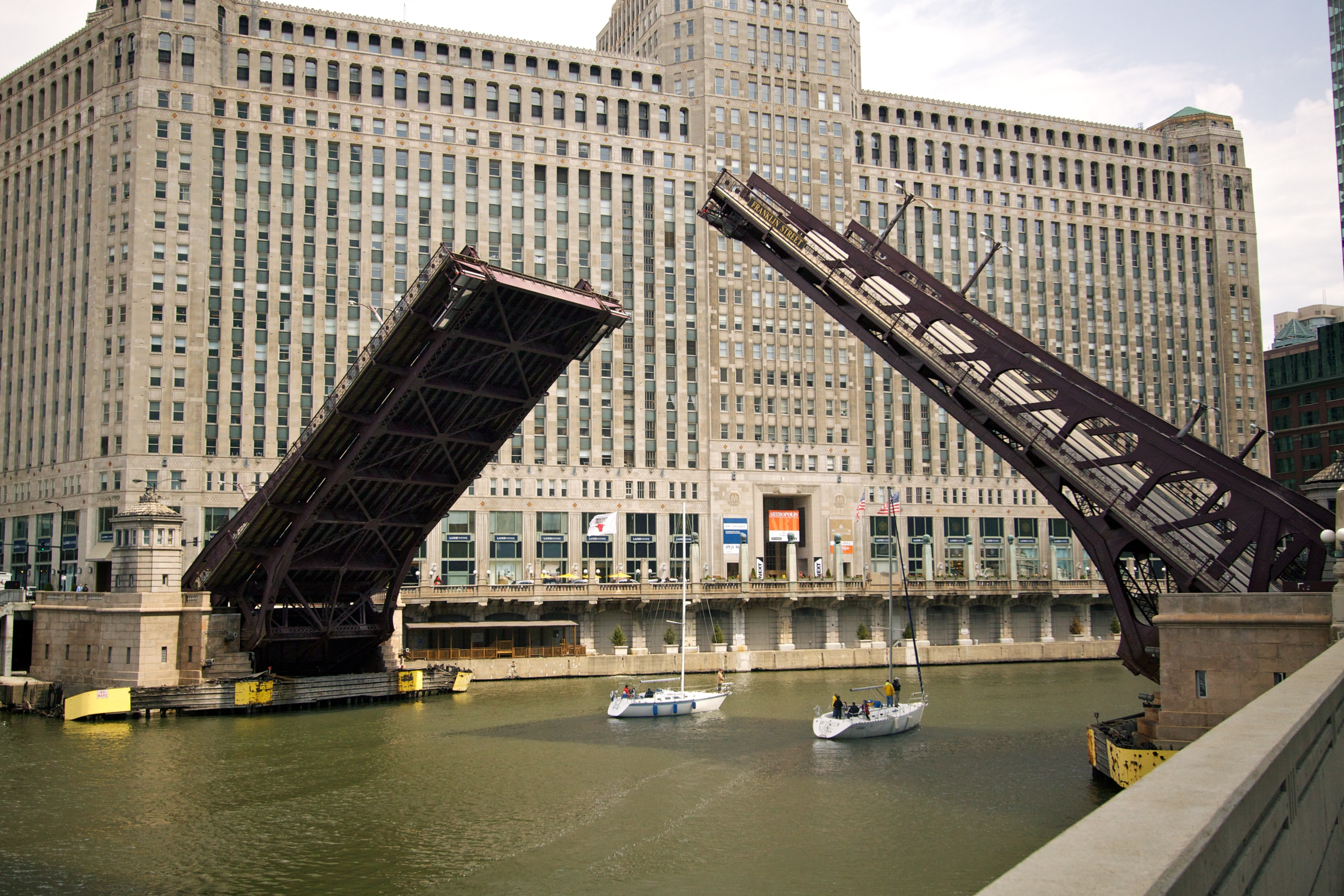 The Franklin Street Bridge, over the Chicago River, in Chicago, Illinois, raised to allow two sailboats to pass.